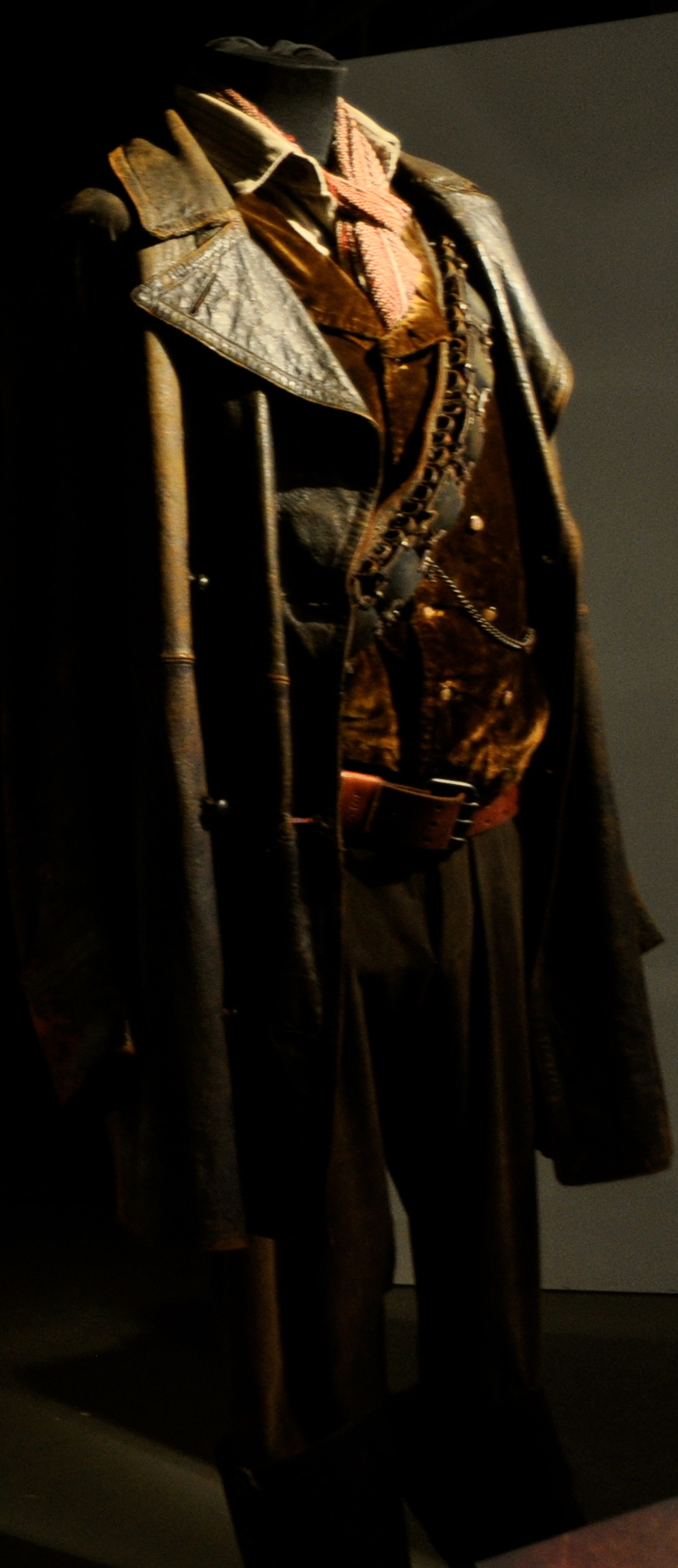 DWE Cardiff Bay, Port Teigr November 2016 Doctor Who Experience